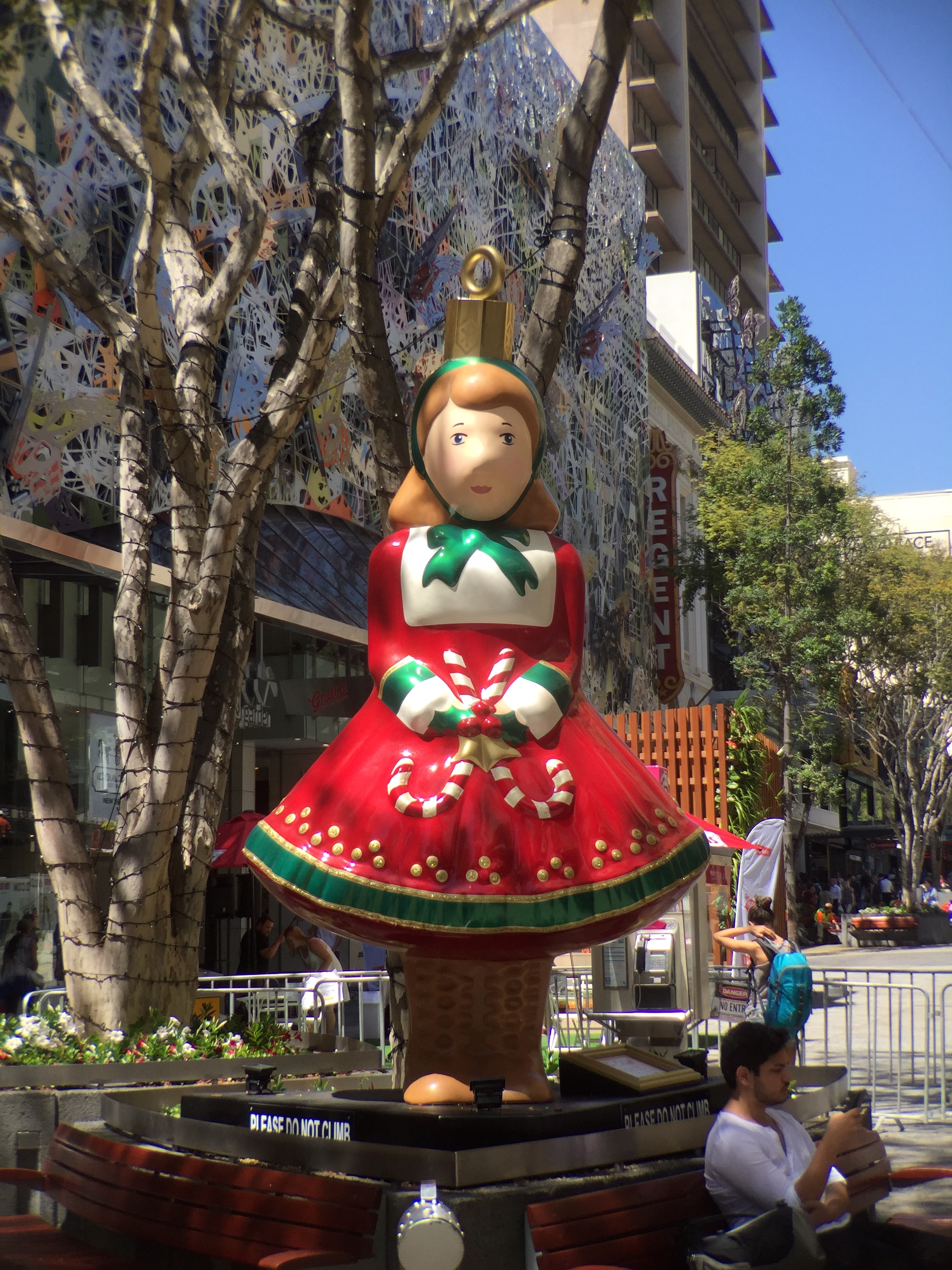 Christmas decorations in Queen Street Mall, Brisbane in 2015